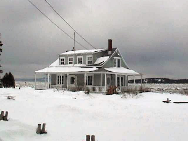 Maison de René louée par les allemands